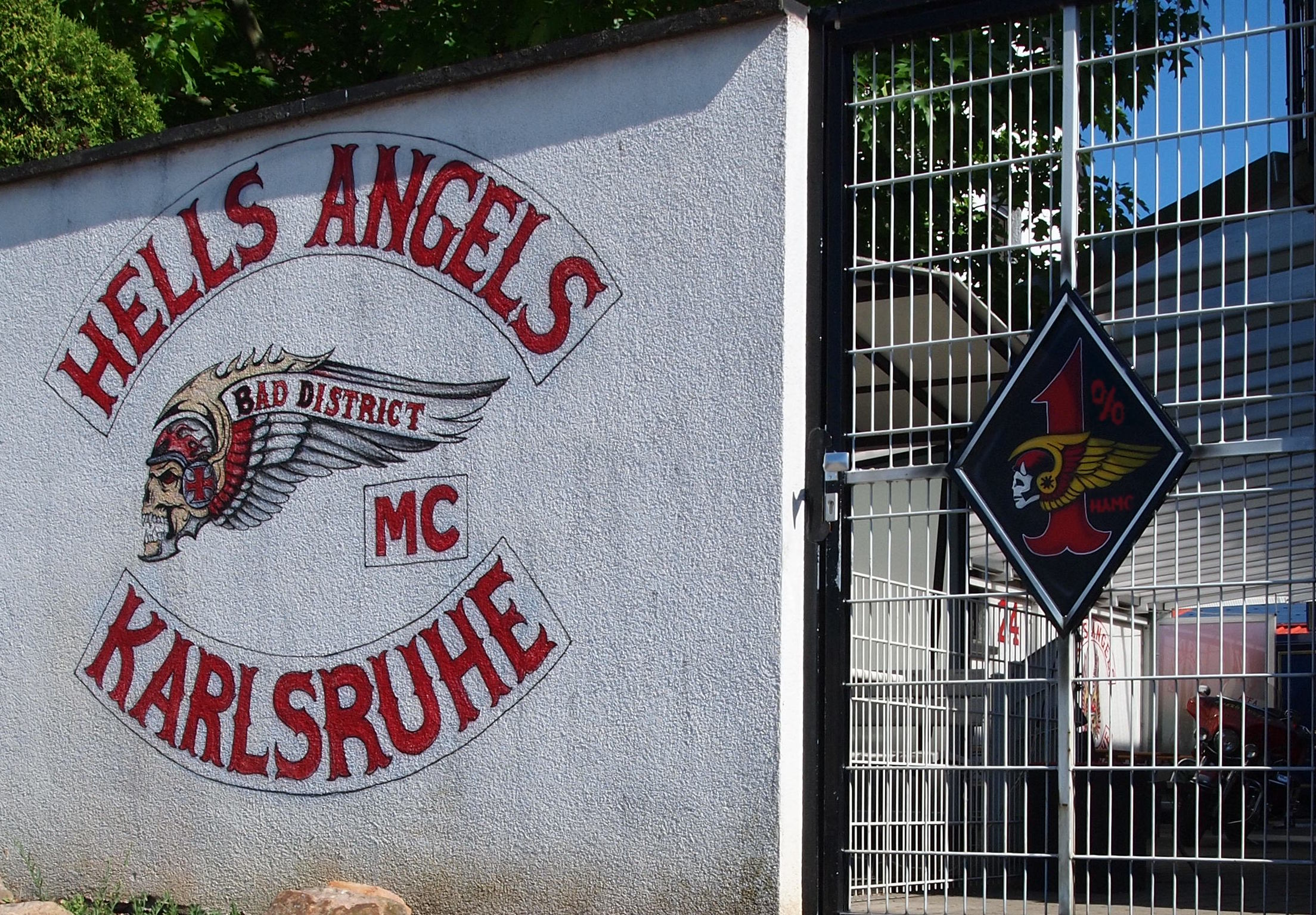 Hells Angels Germany, chapter Karlsruhe. One-percenter sign.